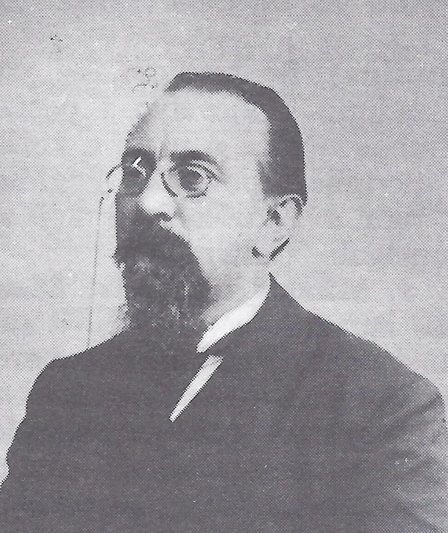 Spiridon Brusina (11 December 1845 – 21 May 1909), Croatian malacologist.